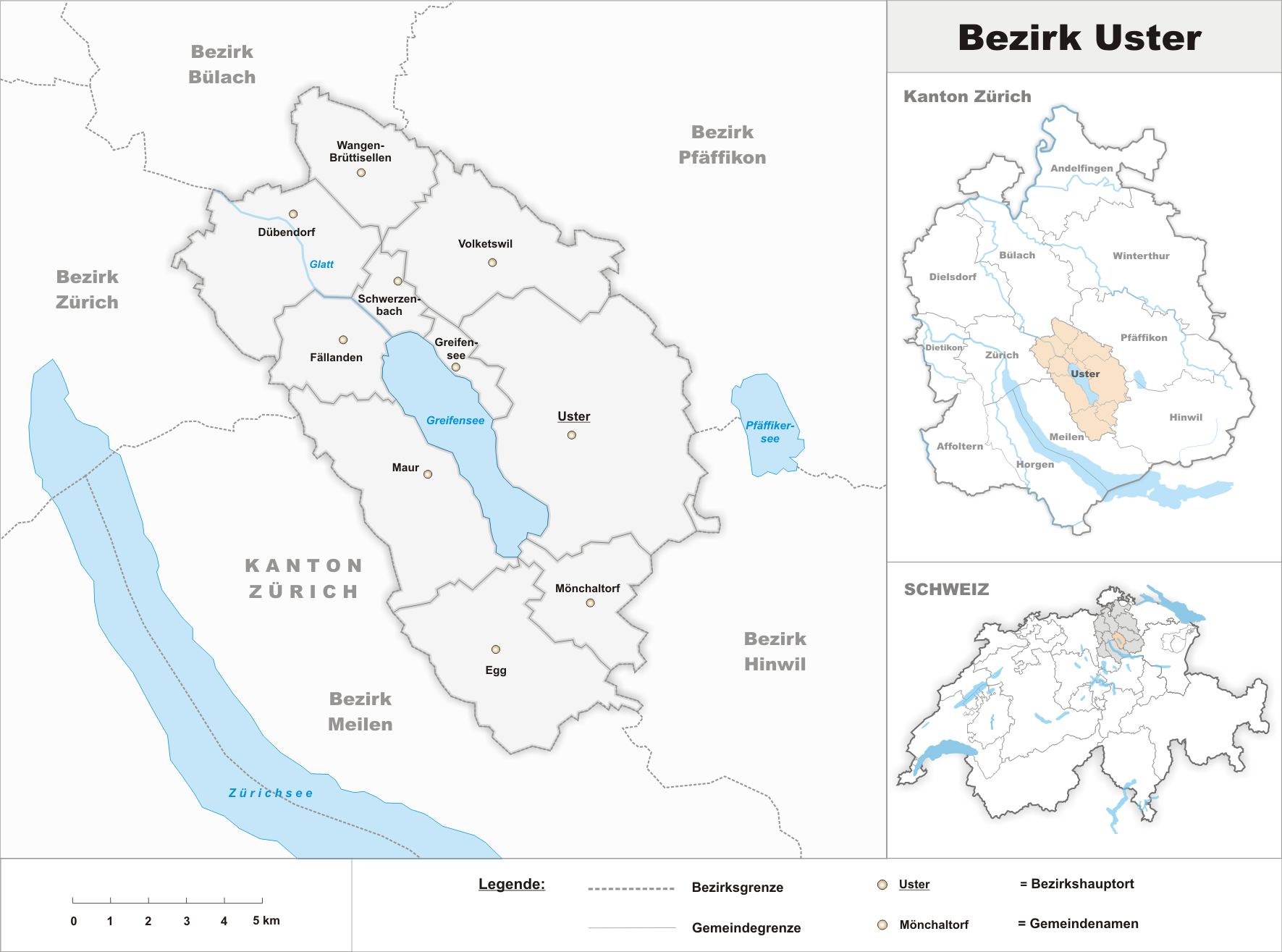 Municipalities in the district of Uster